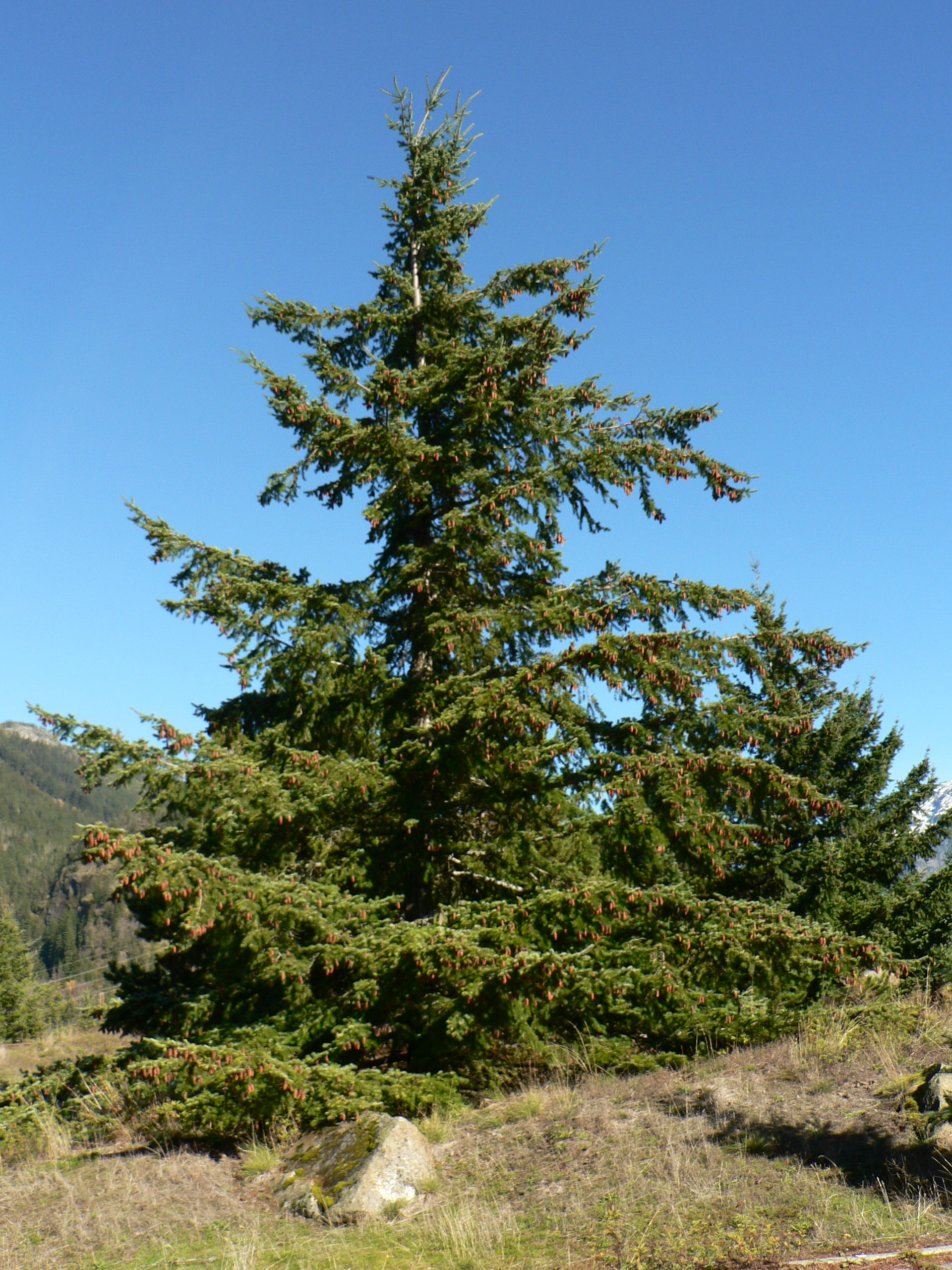 Coast Douglas-fir